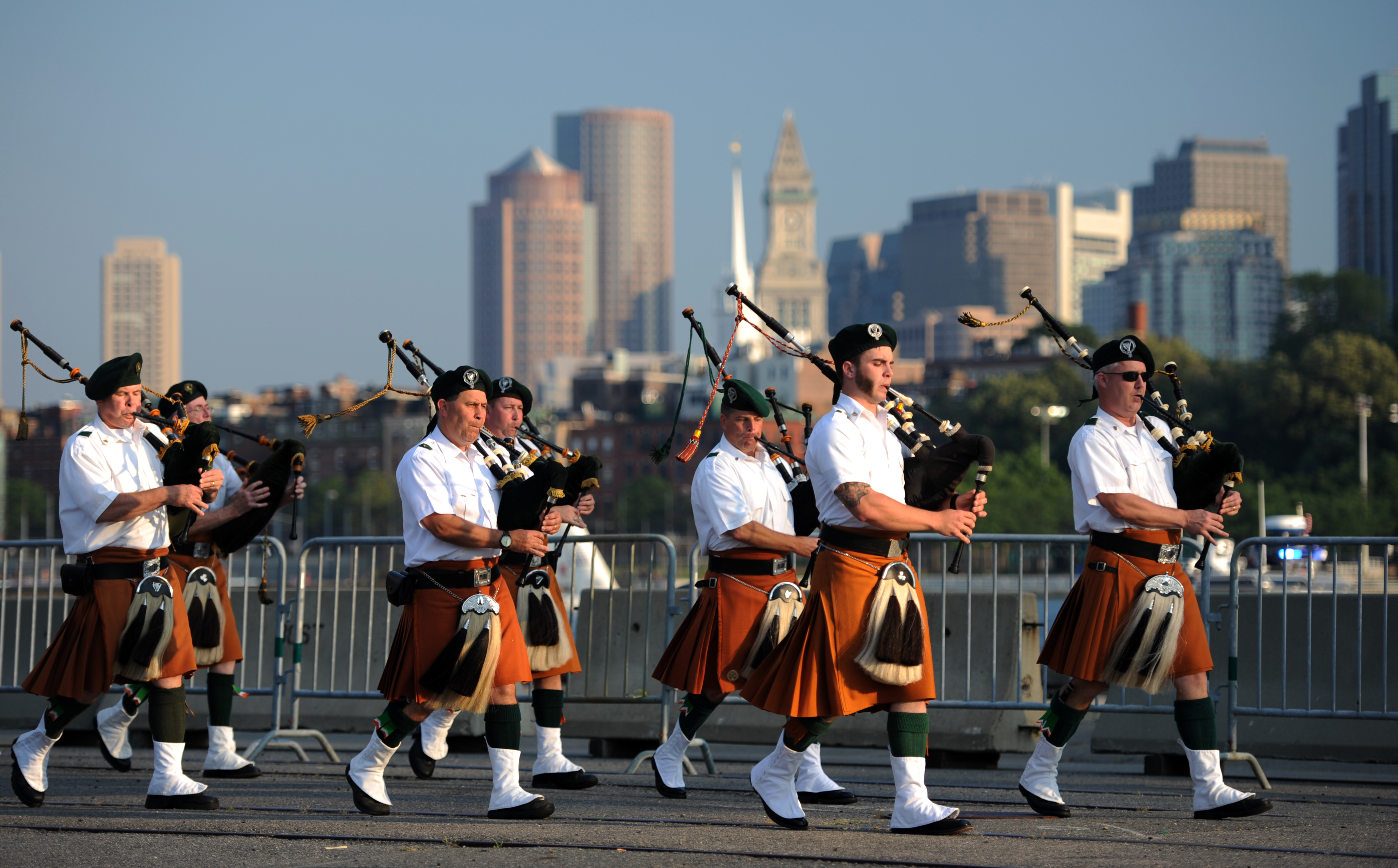 BOSTON (June 29, 2012) Performers march during the "Sunset Parade" at the site of the USS Constitution during Boston Navy Week 2012. Boston Navy Week is one of 15 signature events planned across America in 2012. The eight-day long event commemorates the Bicentennial of the War of 1812, hosting service members from the U.S. Navy, Marine Corps and Coast Guard and coalition ships from around the world. (U.S. Navy photo by Mass Communication Specialist 2nd Class Jason Daniel Johnston/Released) 120629-N-RJ303-528 Join the conversation navylive.dodlive.mil